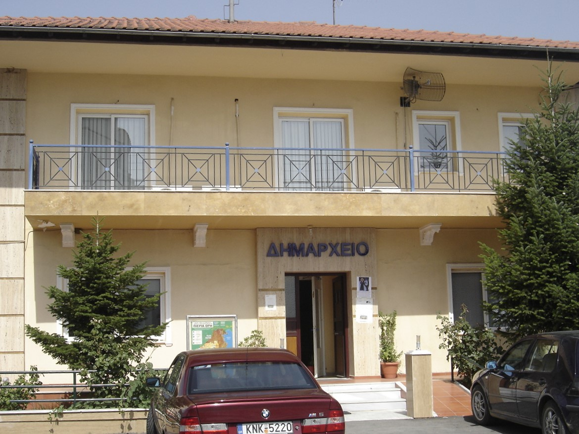 City hall of Milia Municipality in Kato Milia.